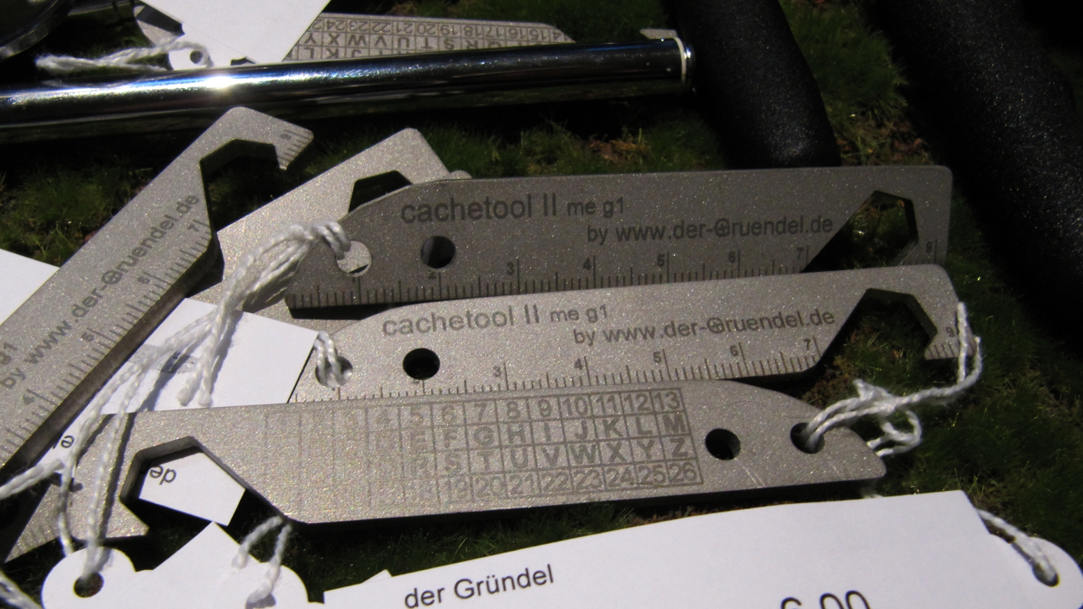 The "Gründel Tool", a special tool developed for geocaching.